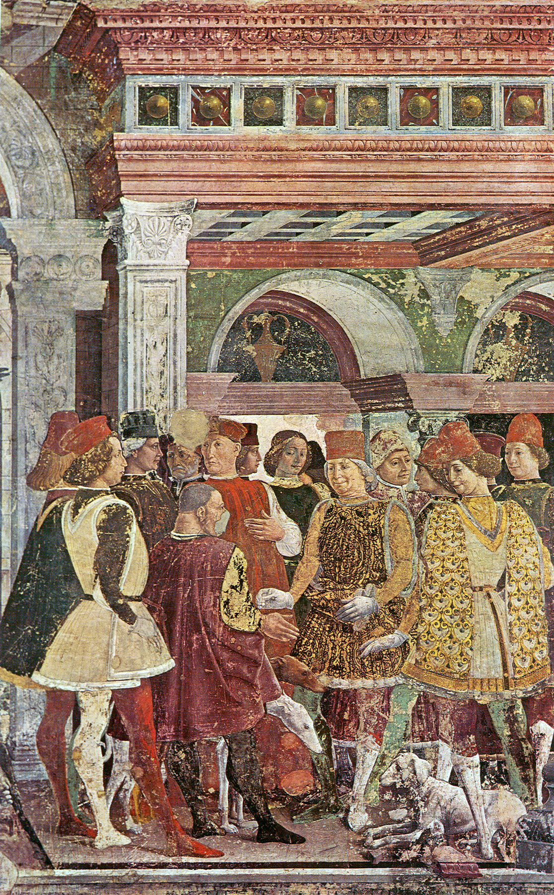 various Ferrarese artist Allegory of April Fresco Palazzo Schifanoia, Ferrara